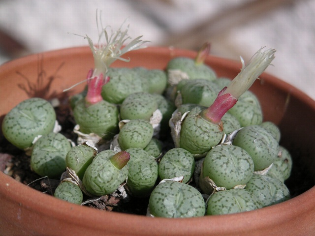 Personnal collection